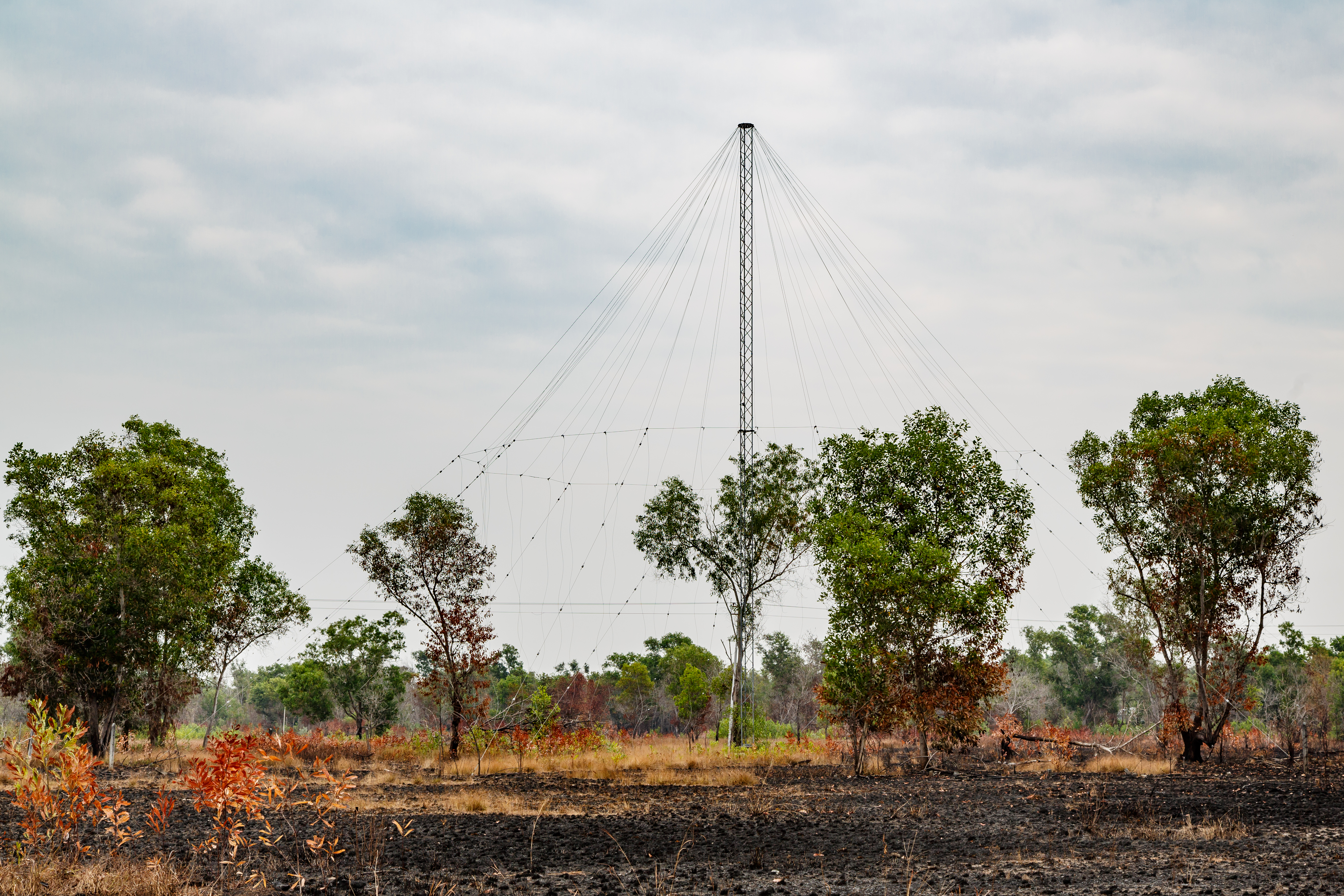 Tuaran, Sabah: A (defunct) umbrella antenna of the former RTM Antenna Farm in Tuaran.